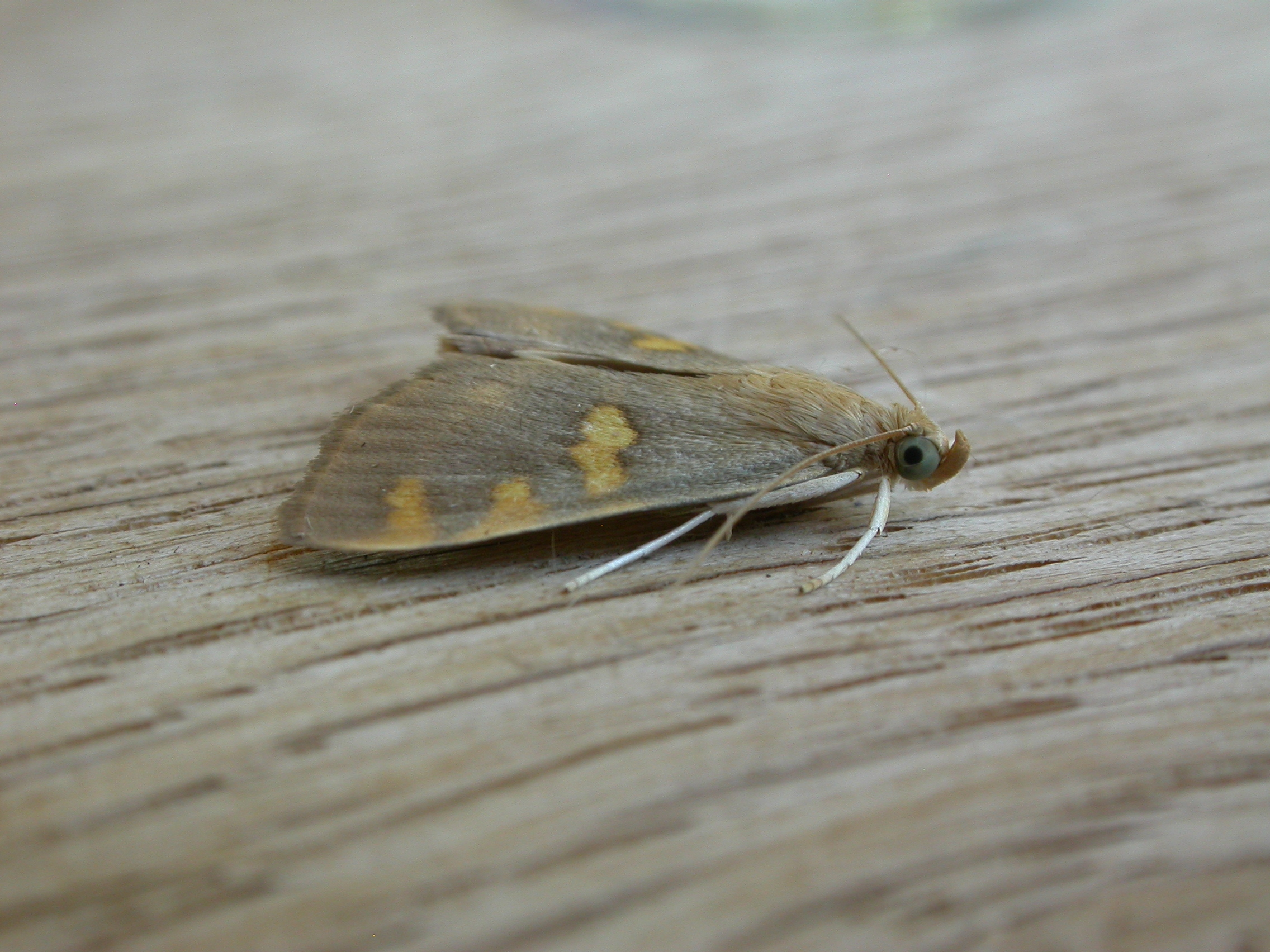 Rehimena surusalis (Walker, 1859), to MV light, Blackheath, NSW, 22/23 January 2011